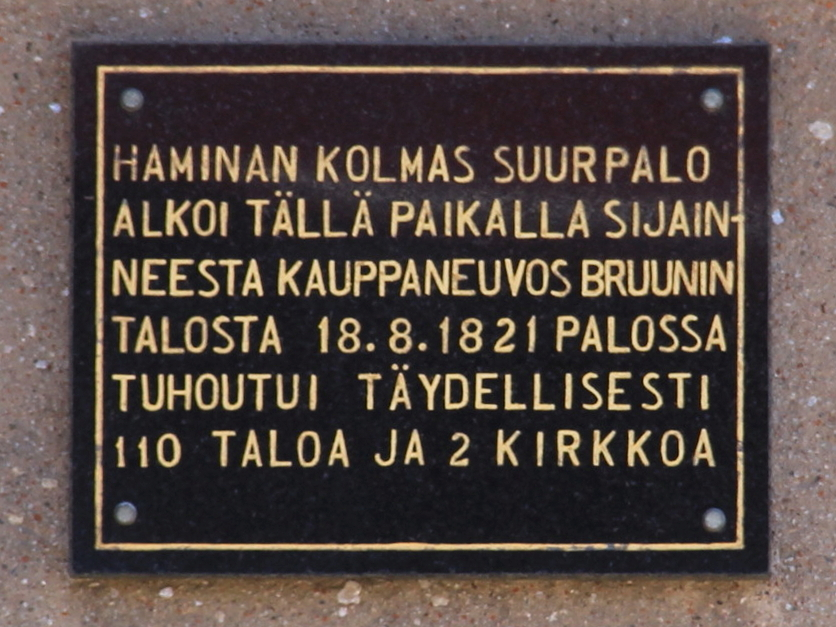 Memorial plaque of Hamina great fire in 1821, Fredrikinkatu 4, corner of Pikkuympyränkatu, Hamina, Finland. - Third great fire in Hamina took place 18th August 1821. It destroyed 110 houses and two churches.